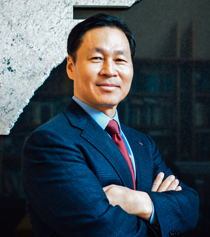 Jeong Kim Headshot